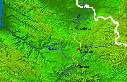 approximate route of canal de saint-Quentin (France)